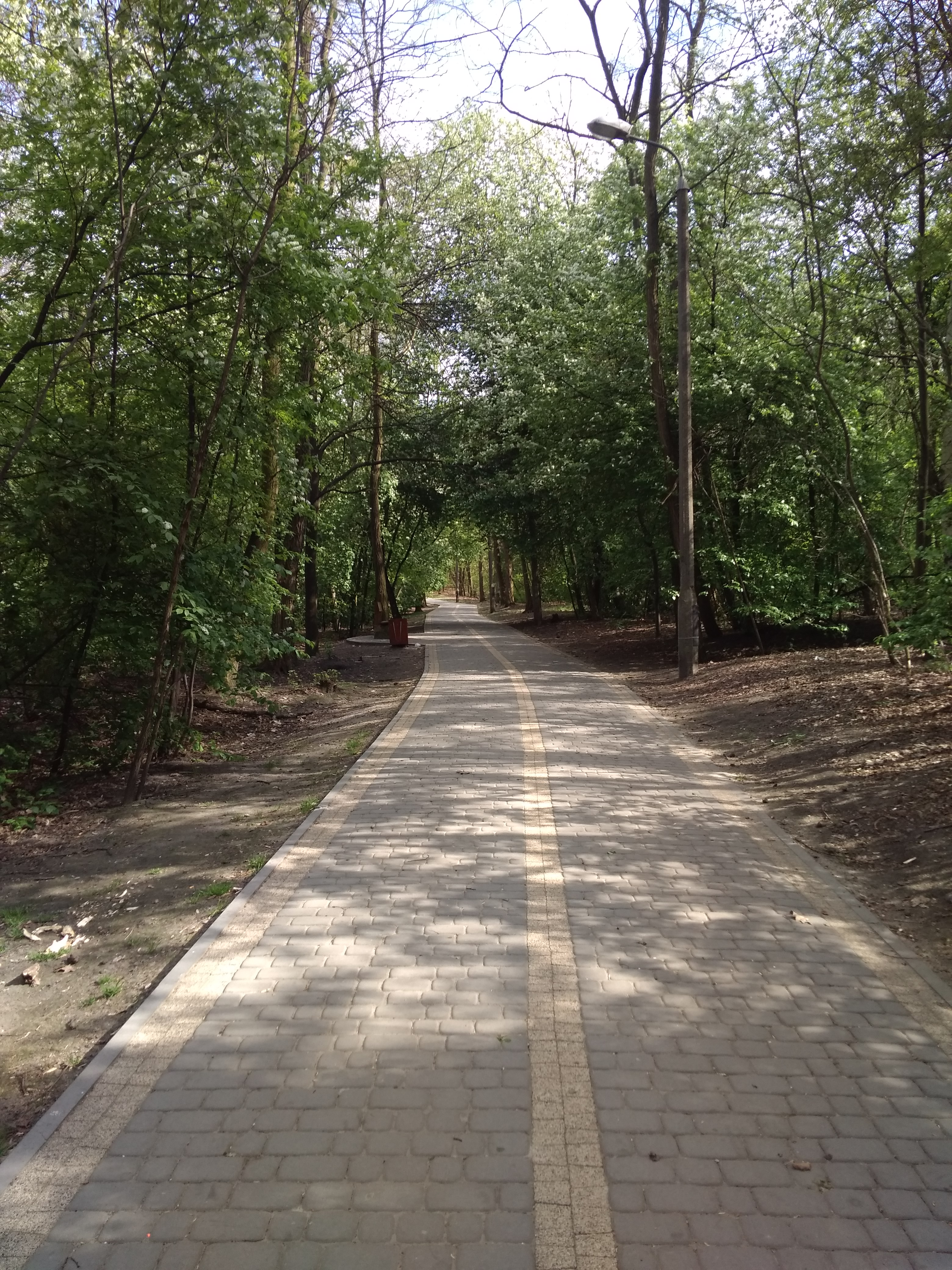 Side alley of Lasek Bytkowski in Siemianowice Śląskie, Poland